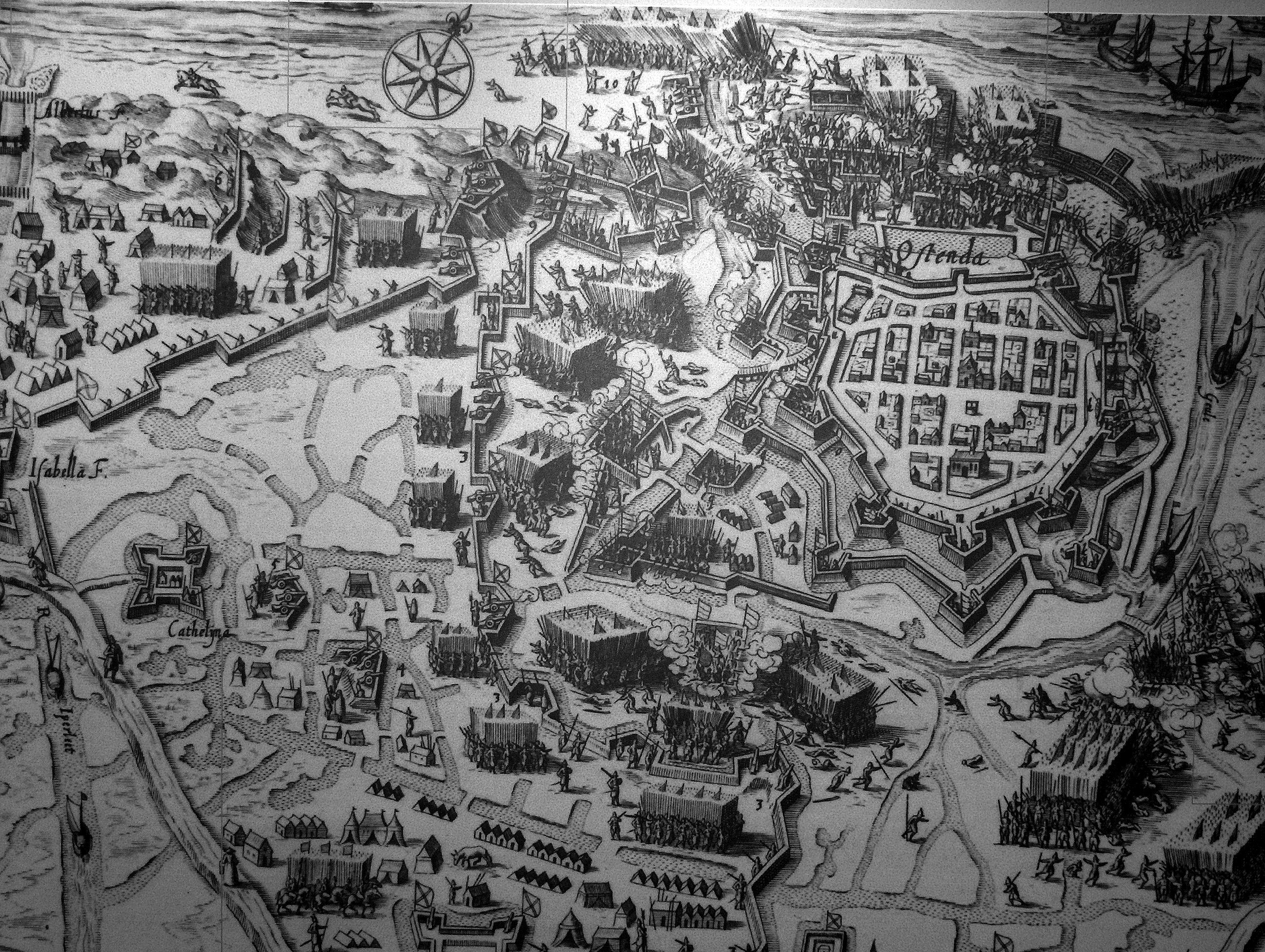 Siege of Ostend (1601-1604) by Spanish troops